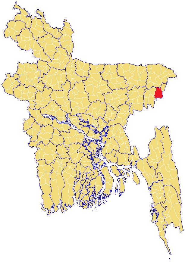 Map of Kulaura Upazila, Maulvibazar District, Sylhet Division, Bangladesh